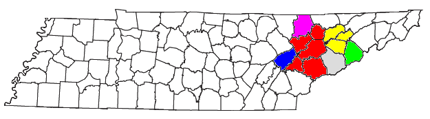 Locator map of the Knoxville-Sevierville-La Follette Combined Statistical Area in the eastern part of the U.S. state of Tennessee. The six components of the CSA are colored separately: Knoxville Metropolitan Statistical Area: red Morristown Metropolitan Statistical Area: yellow Newport Micropolitan Statistical Area: green Harriman Micropolitan Statistical Area: blue La Follette Micropolitan Statistical Area: purple Sevierville Micropolitan Statistical Area: grey